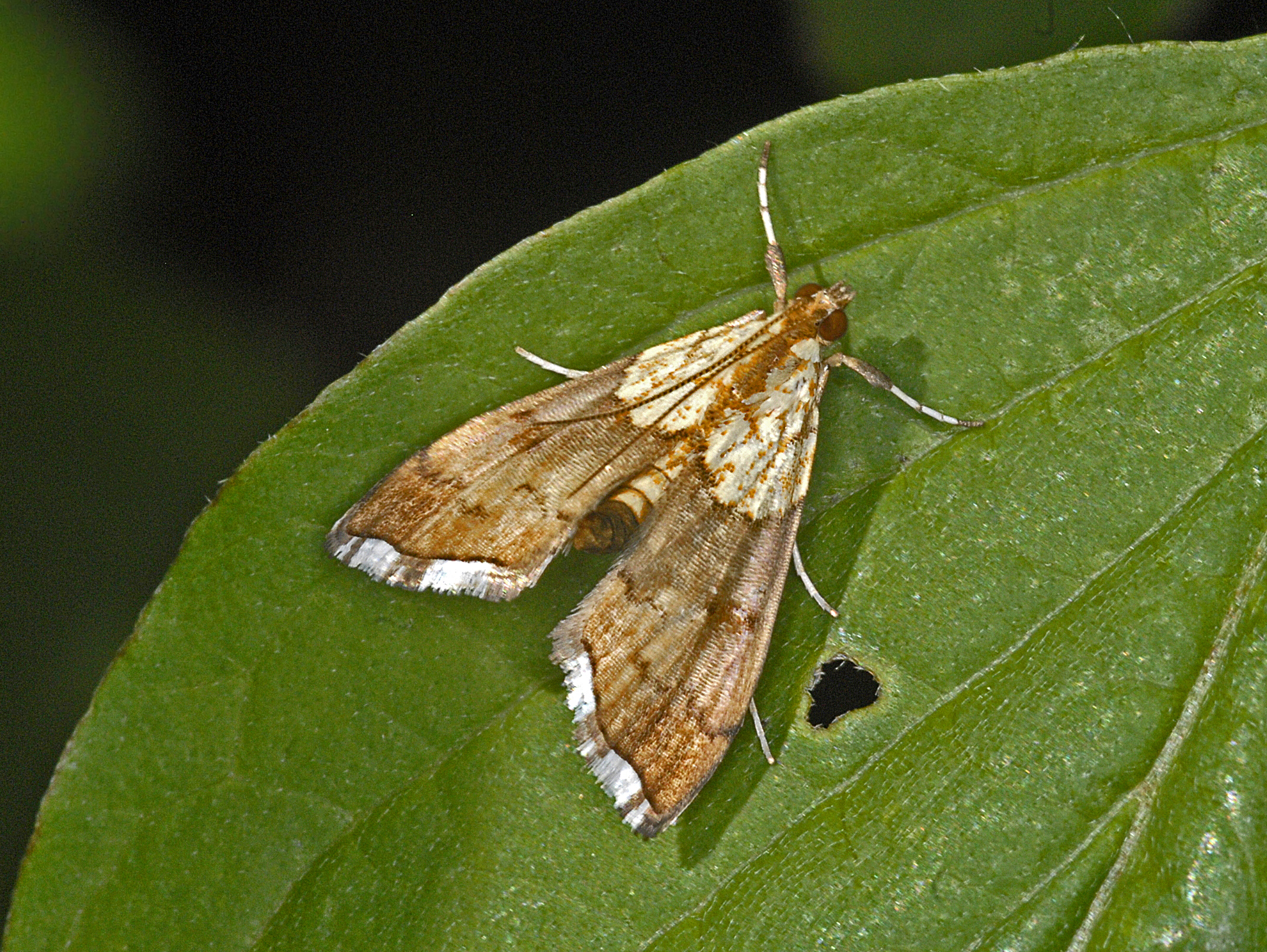 Agrotera nemoralis. Val Noci, Genova, Italy